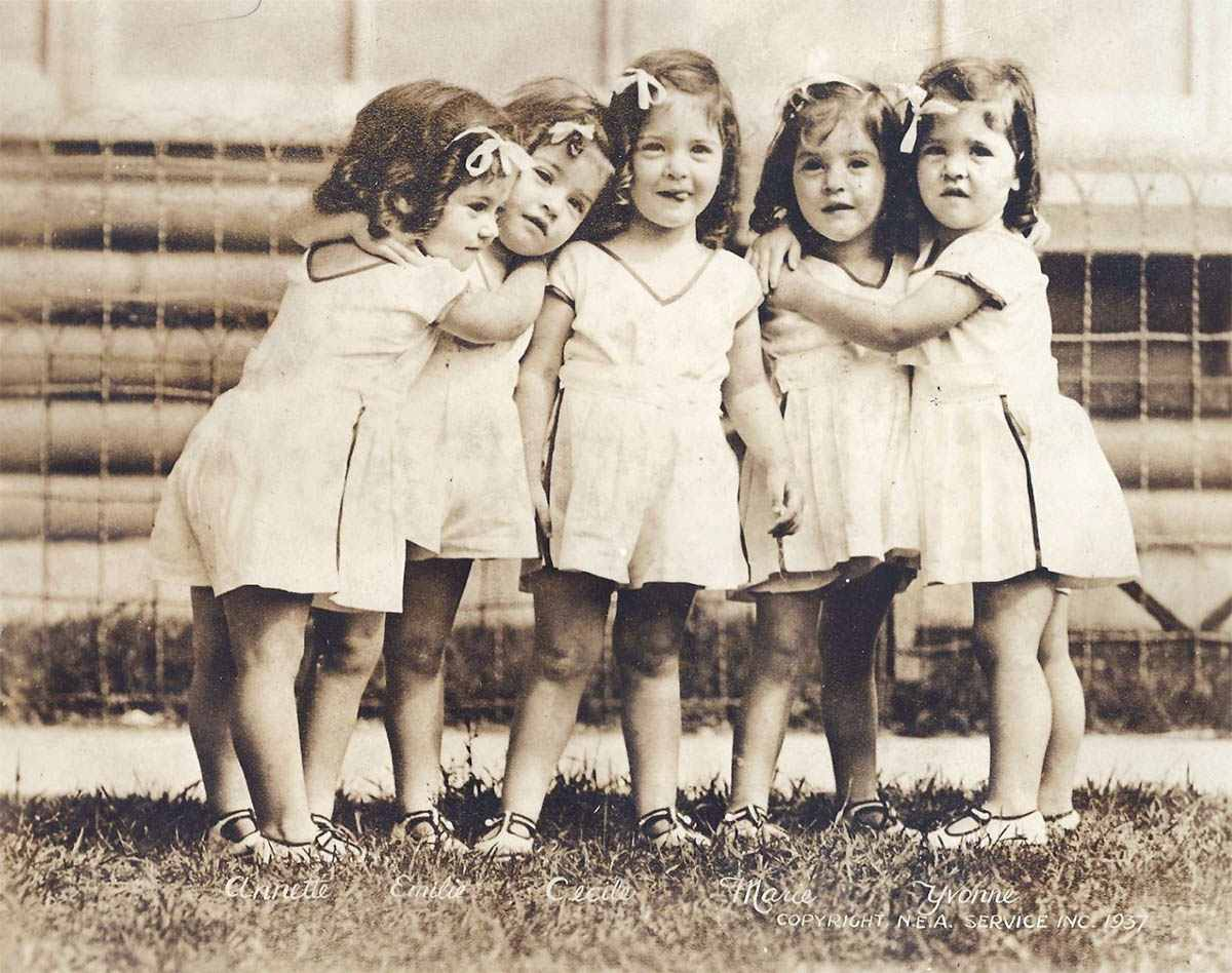 Dionne quintuplets